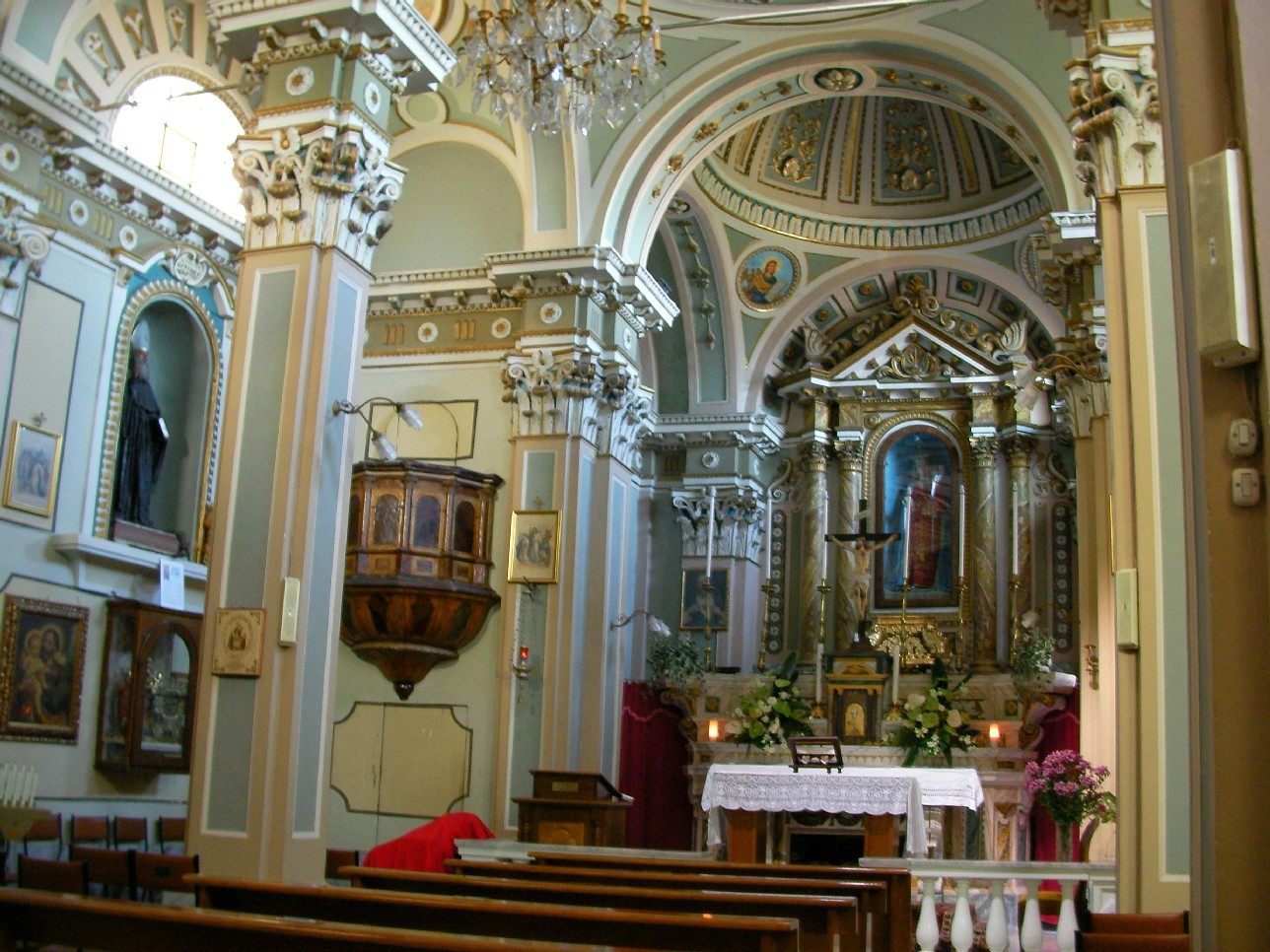 The inside of the church of Madonna Immacolata della Cintura to Atessa